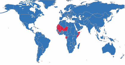 Countries in Postcrossing. Countries participating in Postcrossing: blue. Countries not yet participating in Postcrossing: red.